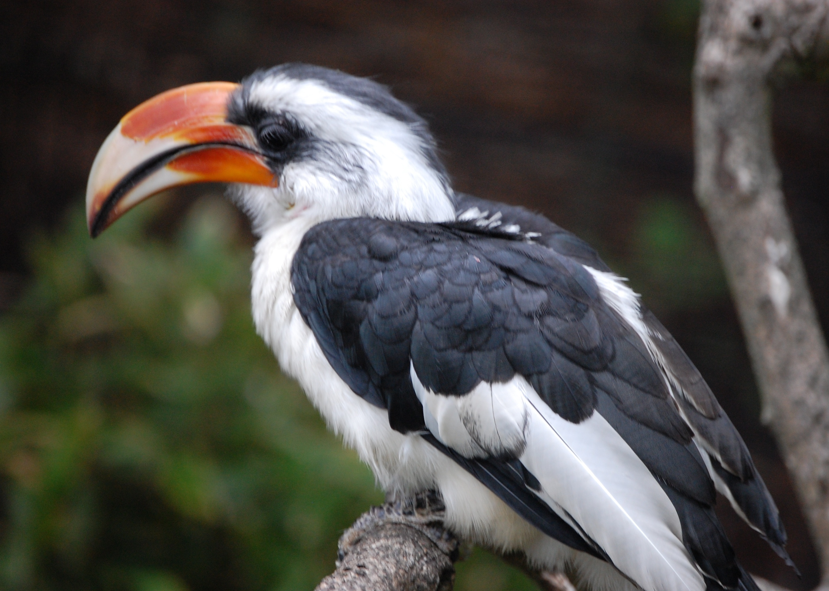 A male Von der Decken's Hornbill at London Zoo, England.